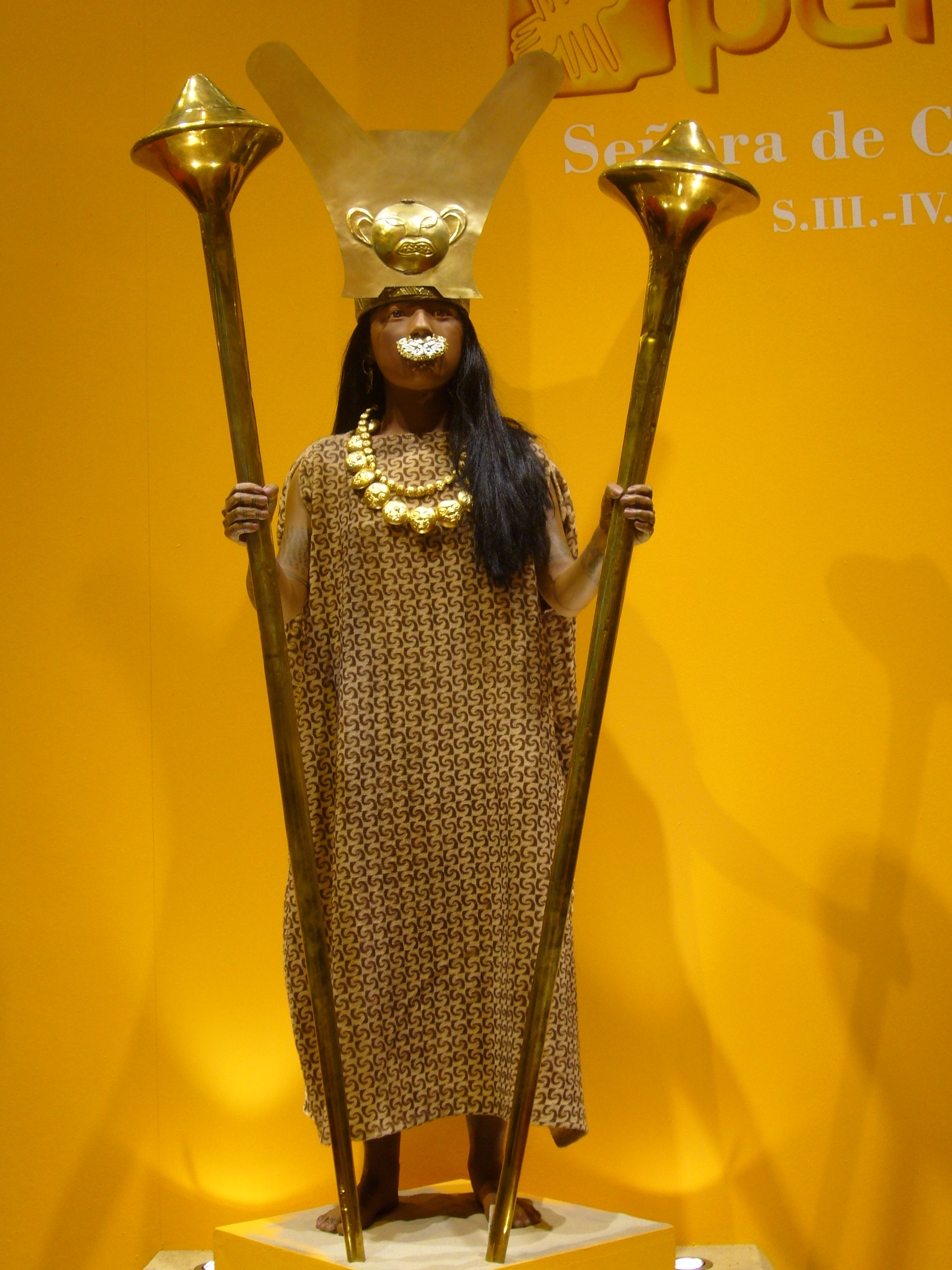 Description: Replica of Señora de Cao Name: Señora de Cao Sex : Female Born : About 1600 years ago Photographer: © Manuel González Olaechea y Franco Shot date : January, 31st, 2007